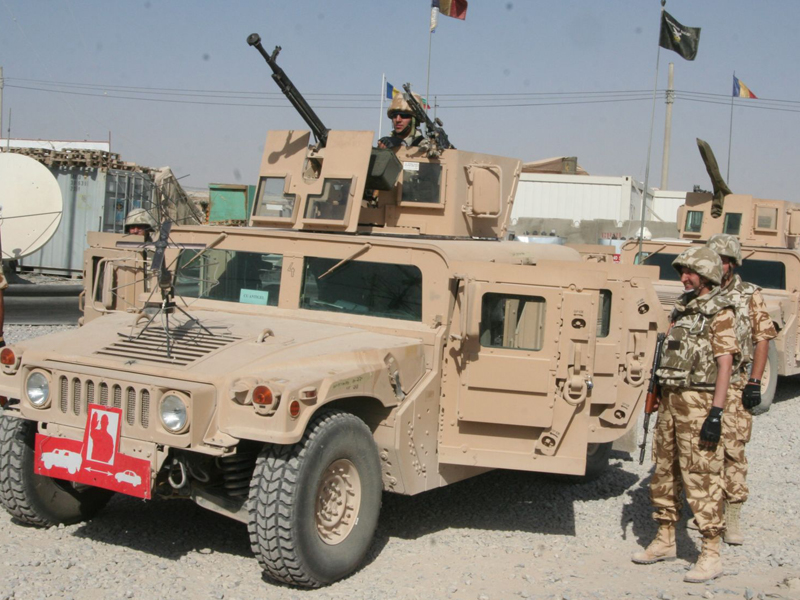 Romanian soldiers ready for a patrol mission in Afghanistan.